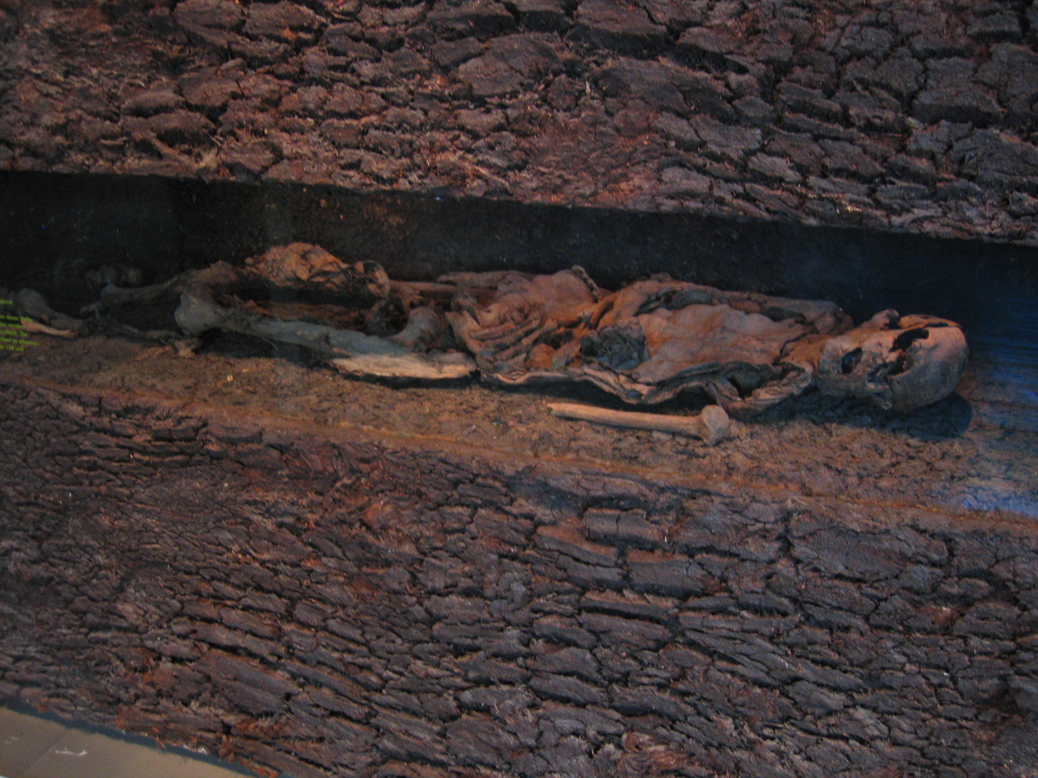 Iron age bog body Neu-England Man, of Lower Saxony, at Landesmuseum für Natur und Mensch, Oldenburg, Germany.